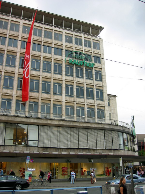 Kaufhof by Theo Pabst